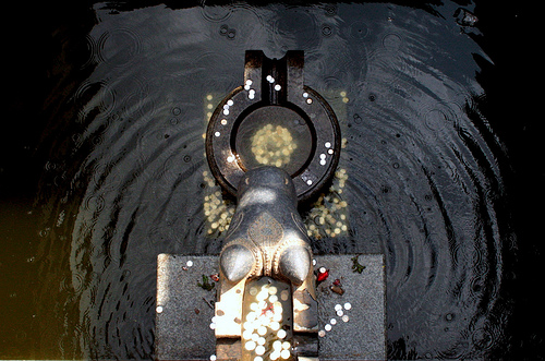 Tank at Talakaveri